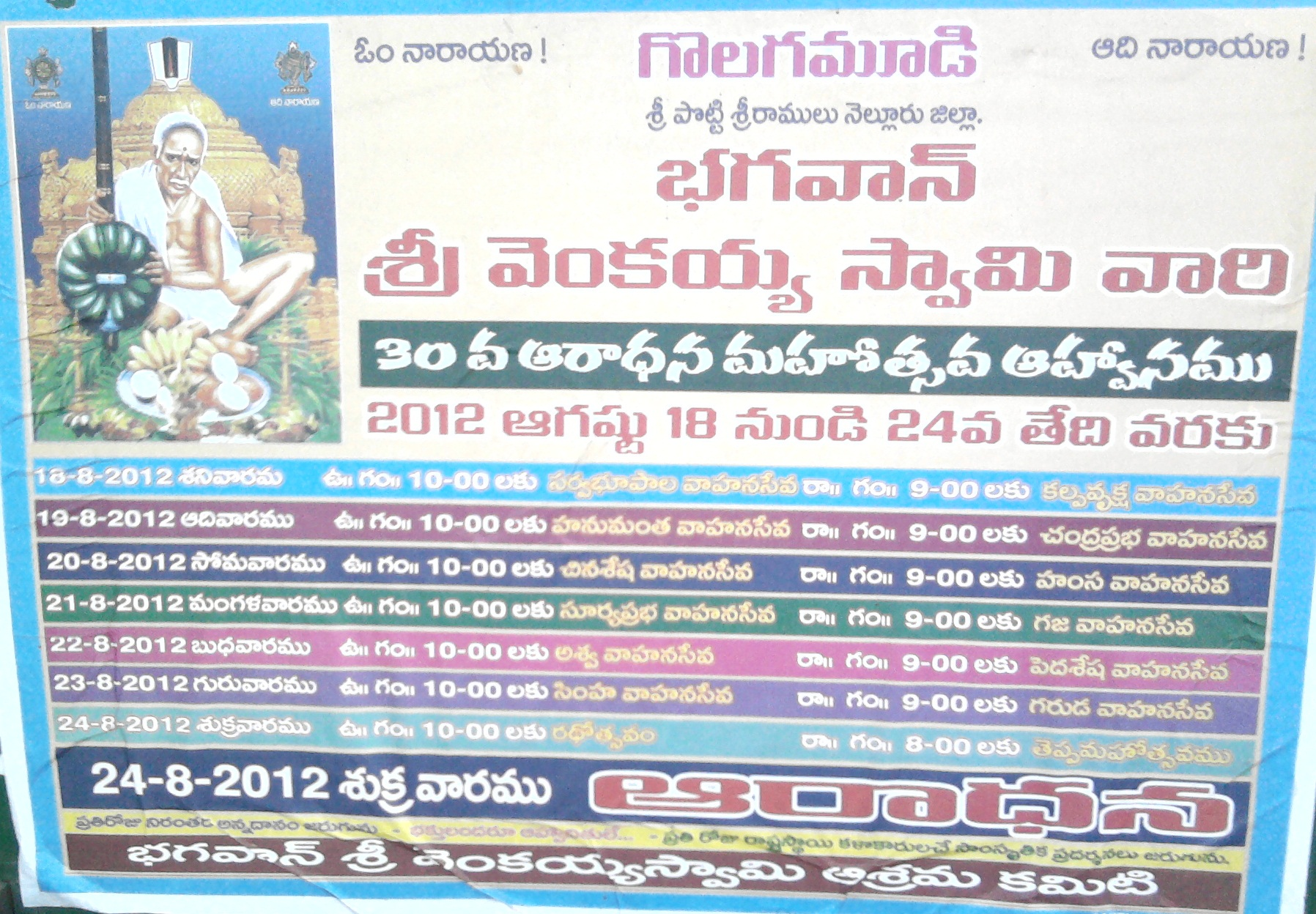 Sri Bhagavan Venkaiahswami Worships Wallposter, Golagamudi, Nellore District, A.P.